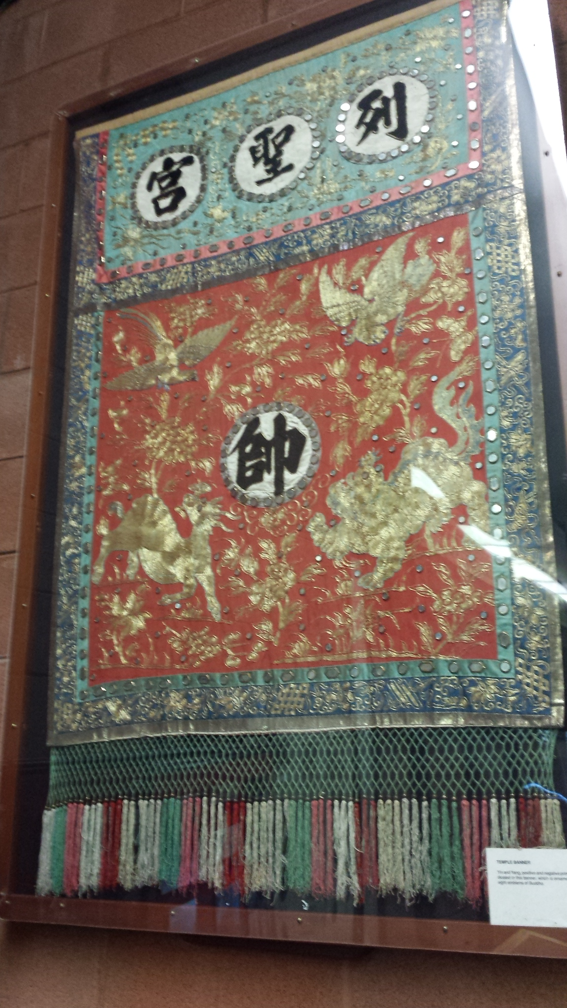 William Collins, photo